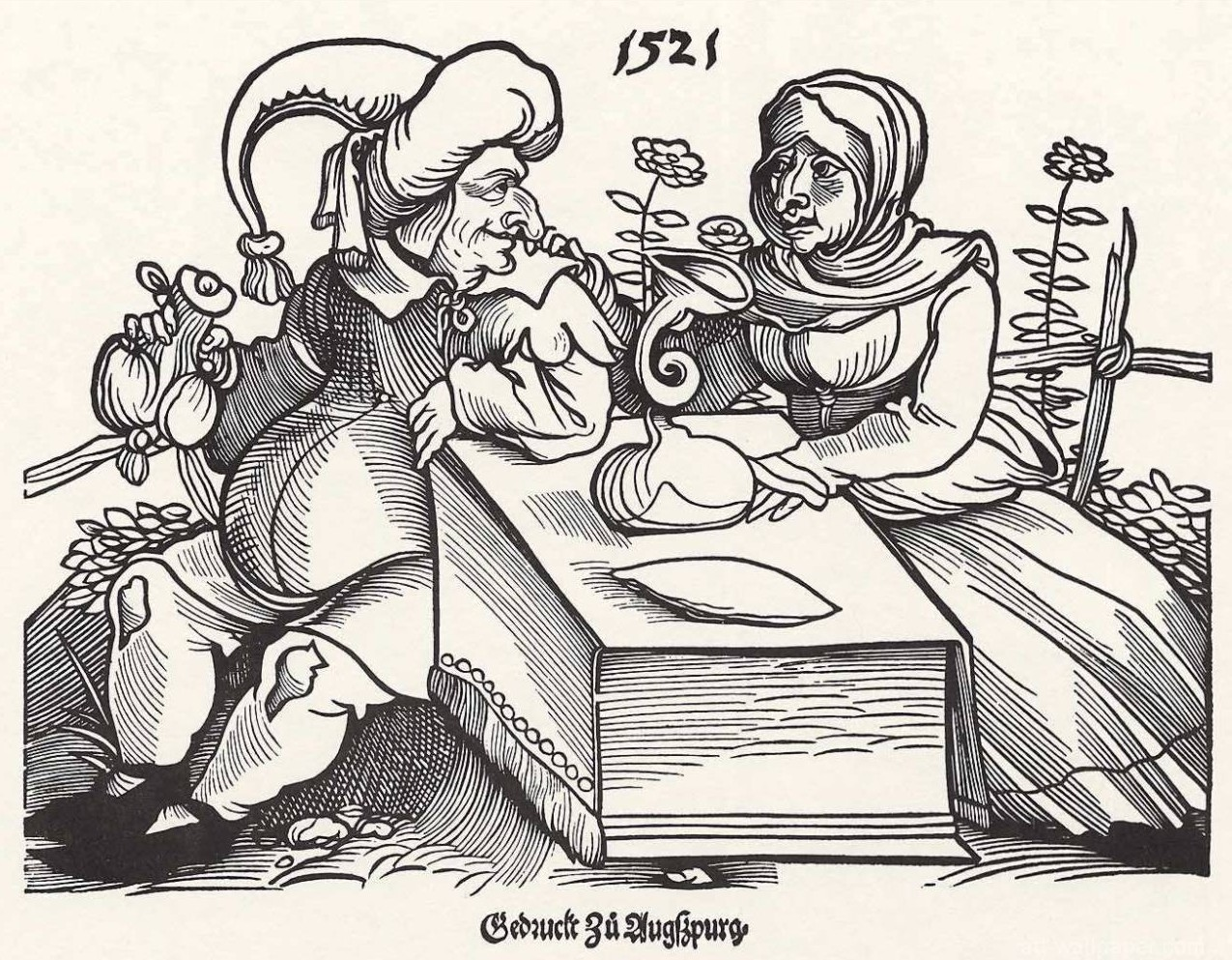 Drinker and his wife